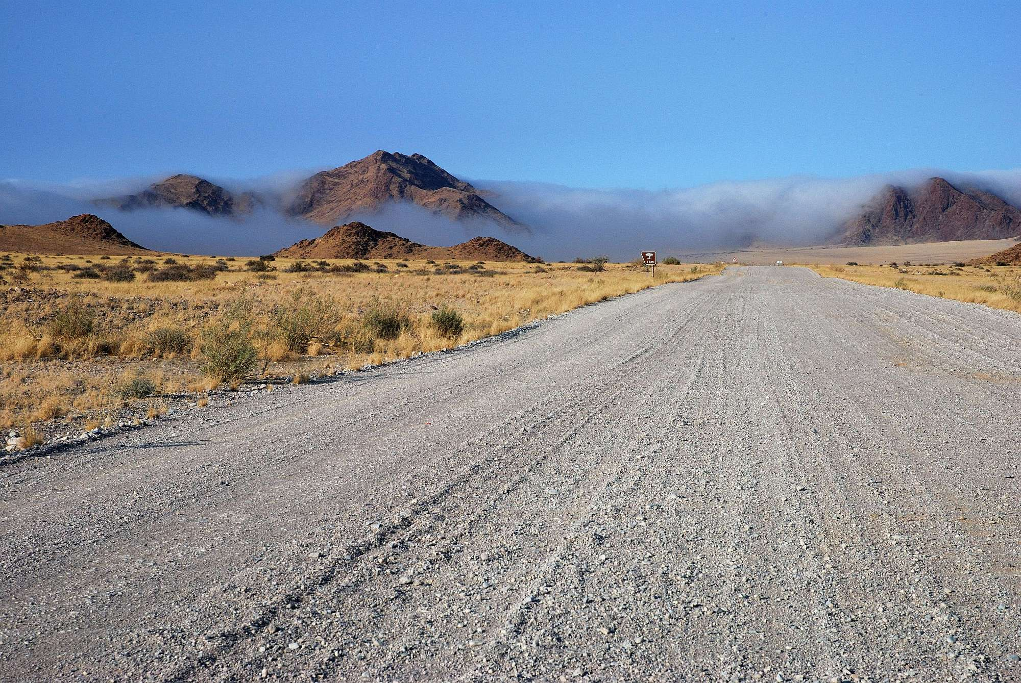 Morning fog coming from the Atlantic Ocean, near Sossusvlei, Namib desert, Namibia